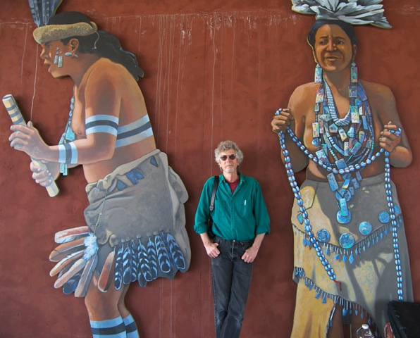 Muralist John O. Wehrle stands betwwen figures of his work "Mak Roote" commissioned by the California Department of Transportation.